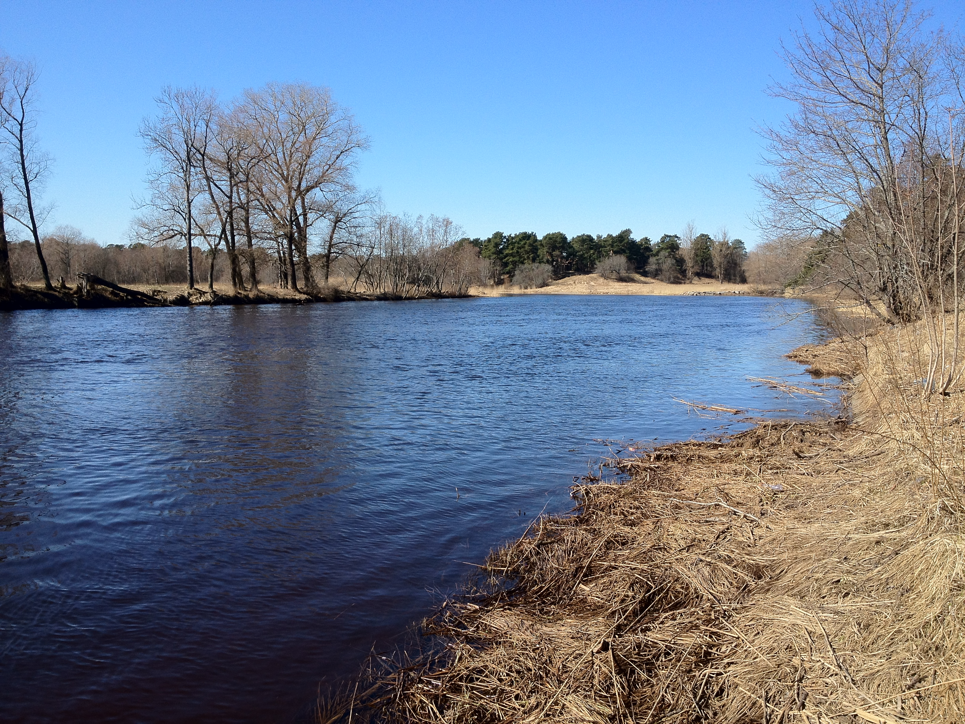 Pirita River